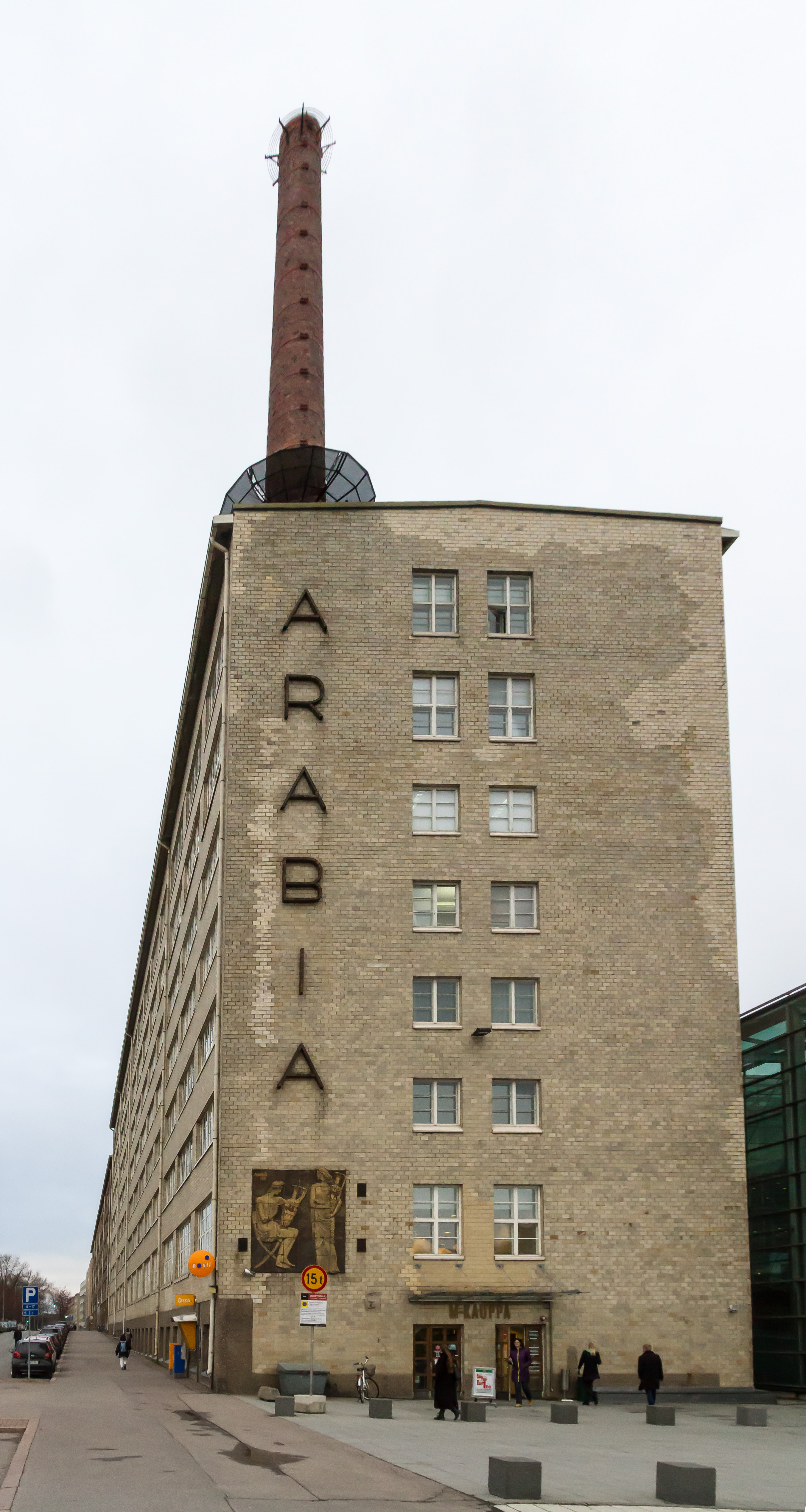 The Arabia factory building in Arabianranta, Helsinki, Finland, home to the University of Art and Design Helsinki.